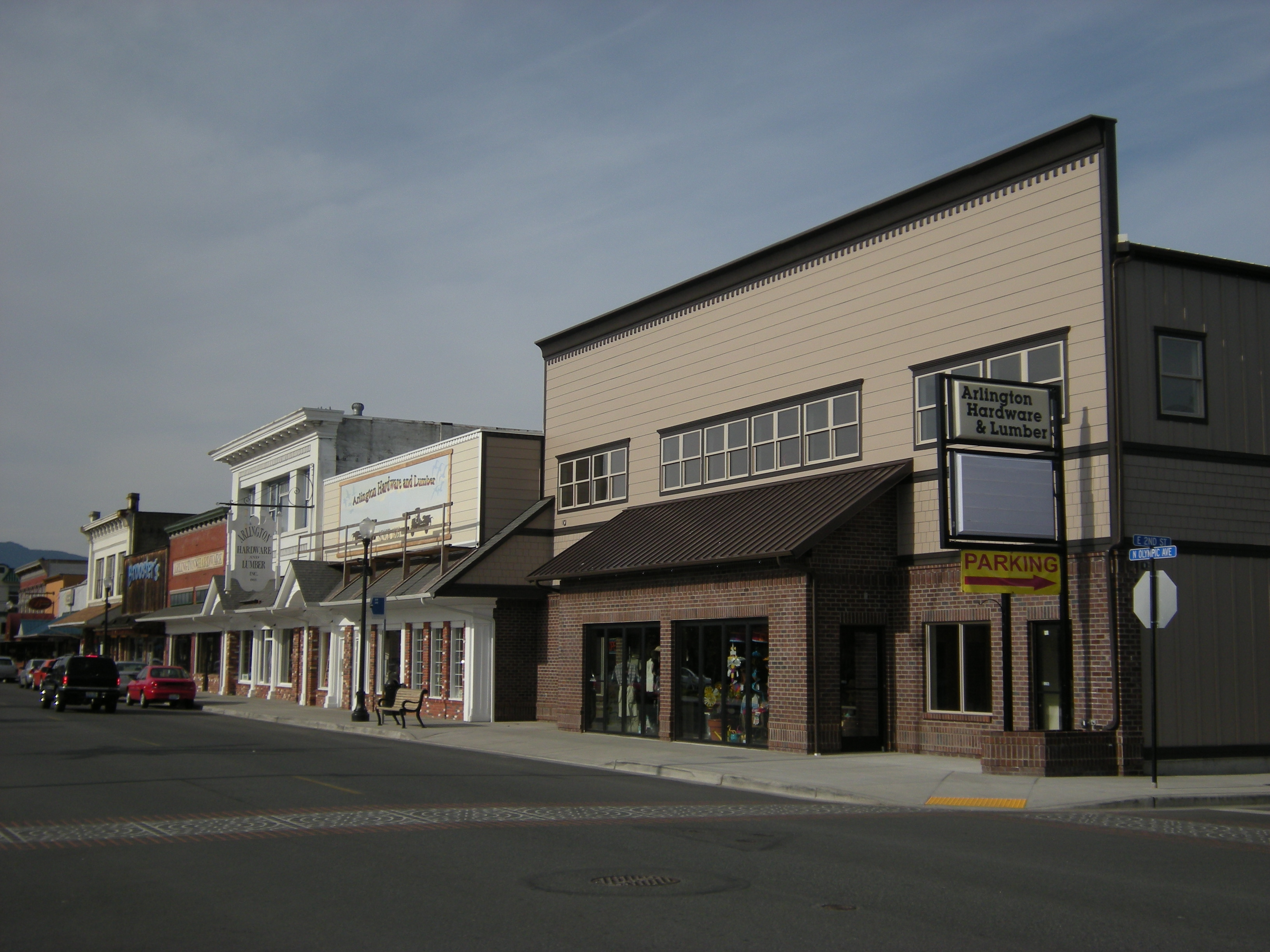 Arlington Hardware and Lumber takes up several storefronts on the east side of N. Olympic Ave. in downtown Arlington, Washington, USA. The business was founded in 1903.